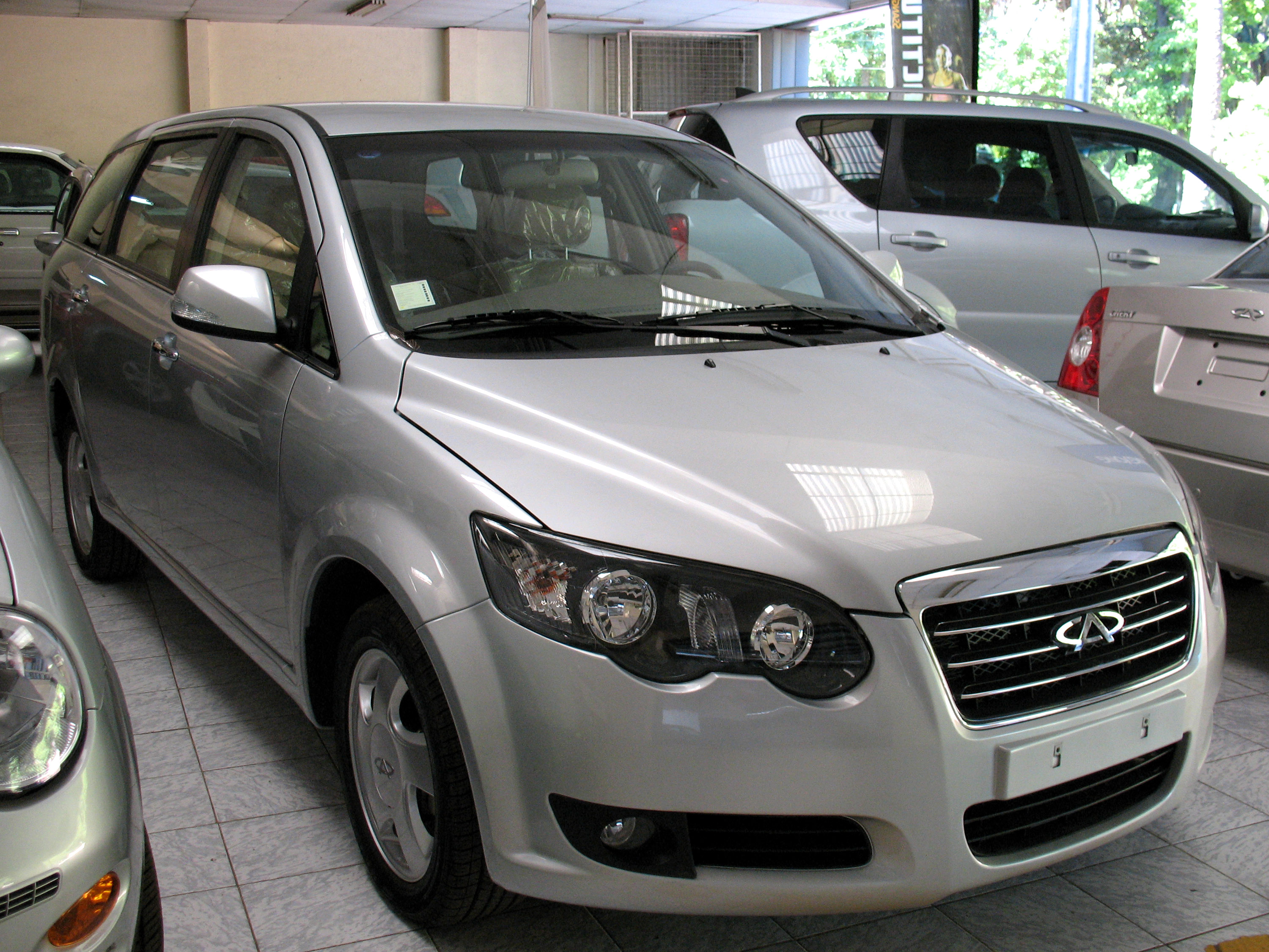 Also B14, Cross Easter, V5, V525